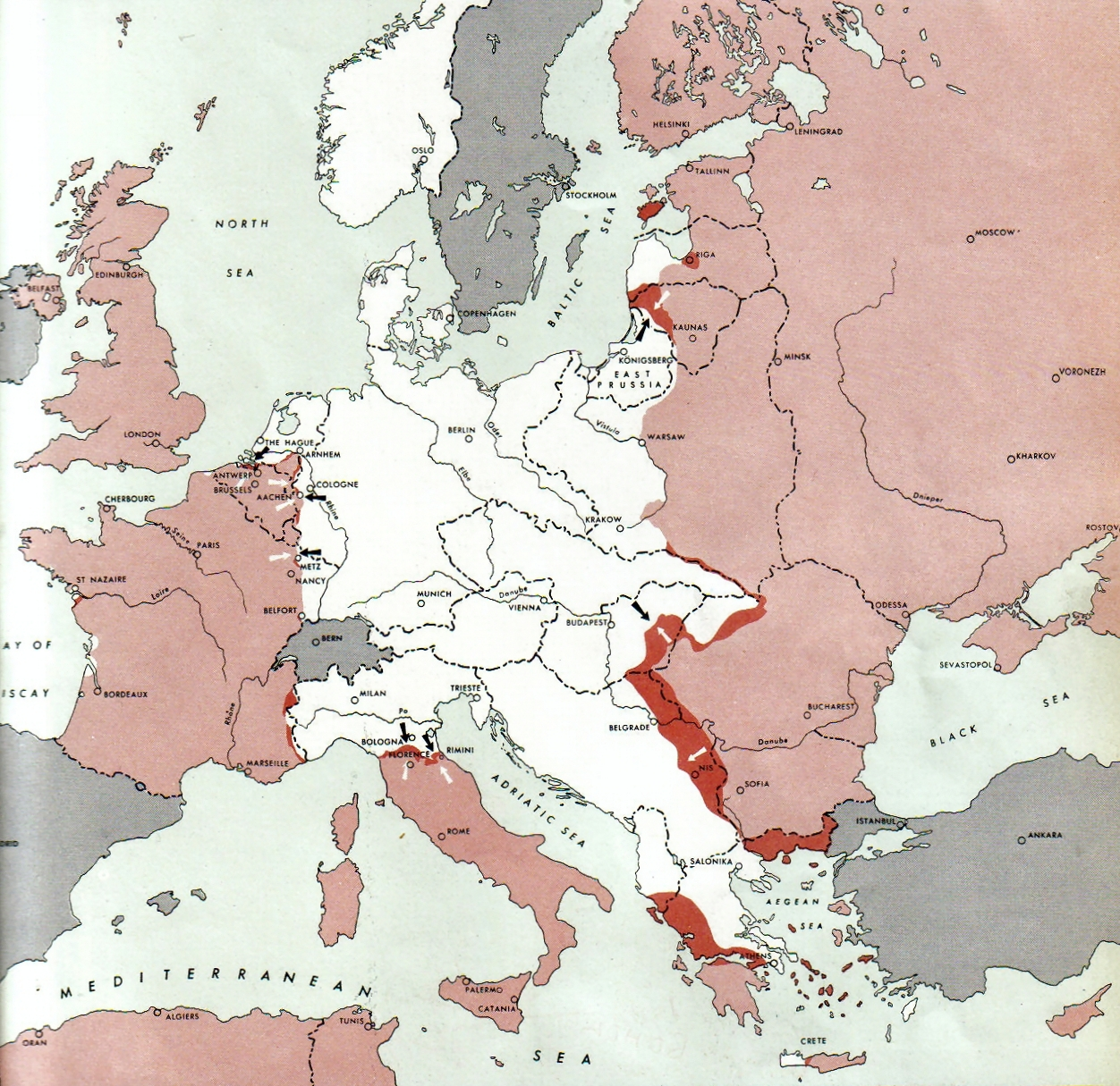 Map of the front against Germany: This map is taken from the source "Atlas of the World Battle Fronts in Semimonthly Phases to August 15th 1945: Supplement to The Biennial report of The Chief of Staff of the United States Army July 1, 1943 to June 30 1945 To the Secretary of War". (See Cover, Forward and Map details)